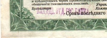 Stamp Vladivostok on 200 rubles 1917.jpg